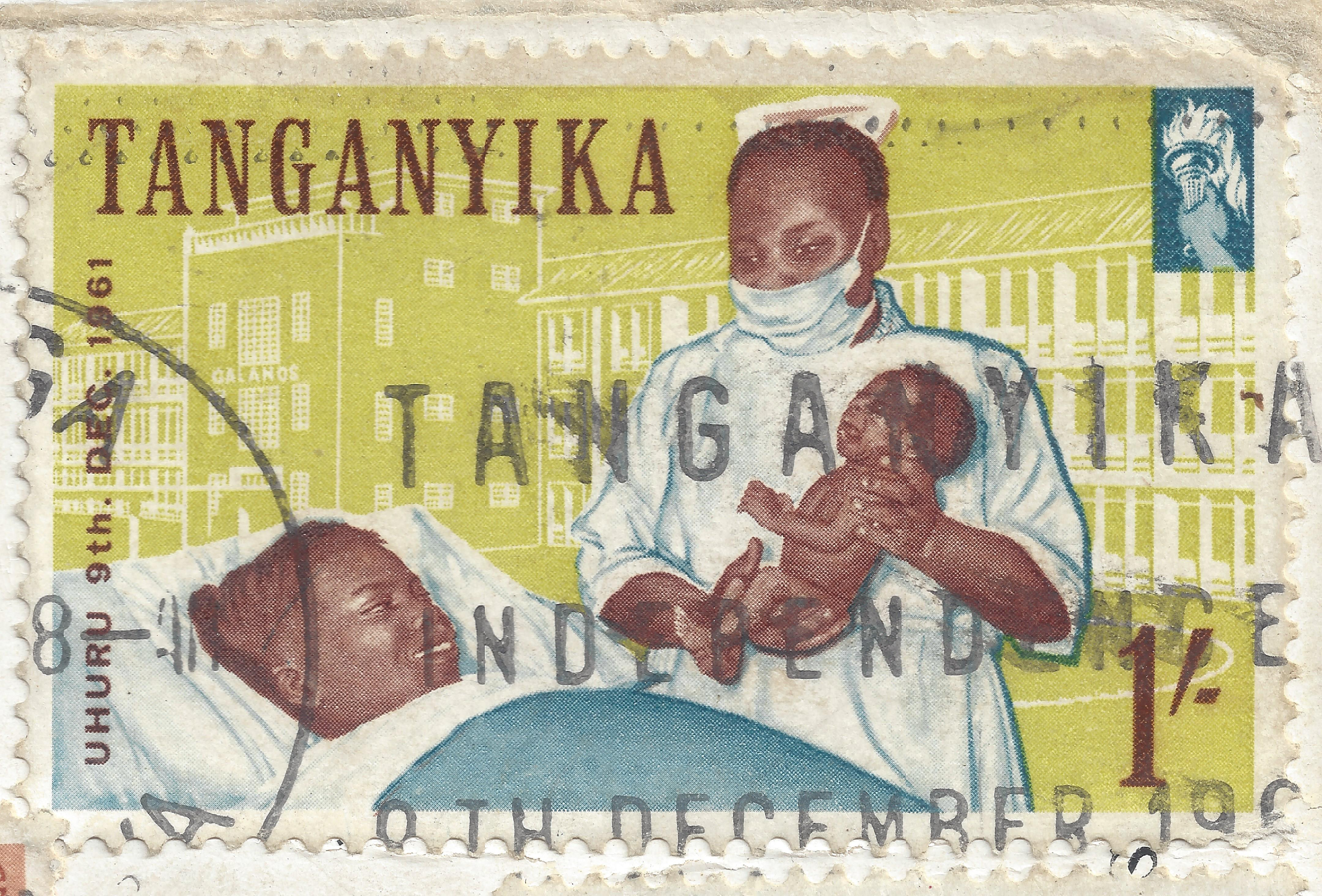 This 1961 one shilling denomination of the special postage stamp (colour brown, blue and olive), issued to commemorate independence and with the subject of 'Maternity'. One of the nurses there, Mary Mzinga, the daughter of Massy Swynnerton's secretary Stephen Mzinga, was honoured in an unusual way before she left for advanced training in England; showning her presenting a new born infant to the proud mother. All these occured at the Maternity wing of the Hospital, which some years previously had been funded with 35.000£ by Christos Galanos. The GALANOS inscription, is barely visible at the facade of the building (between the windows of the 2nd. and the 3rd. floor), thus honouring the benefactor.